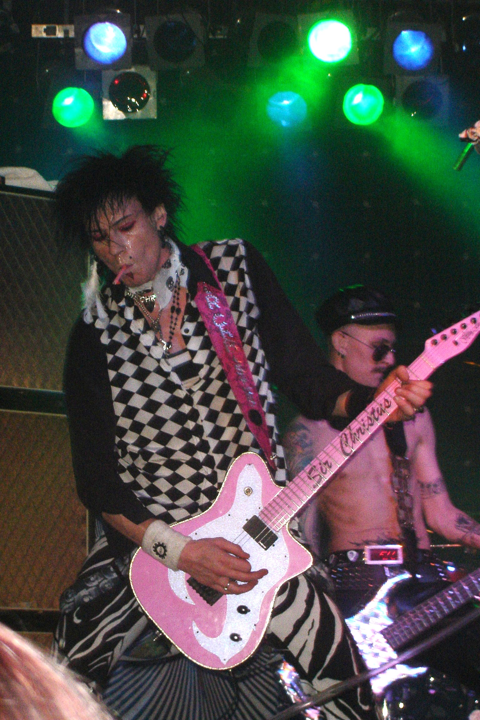 Sir Christus and his hairstyle, named Jukka-Palm.